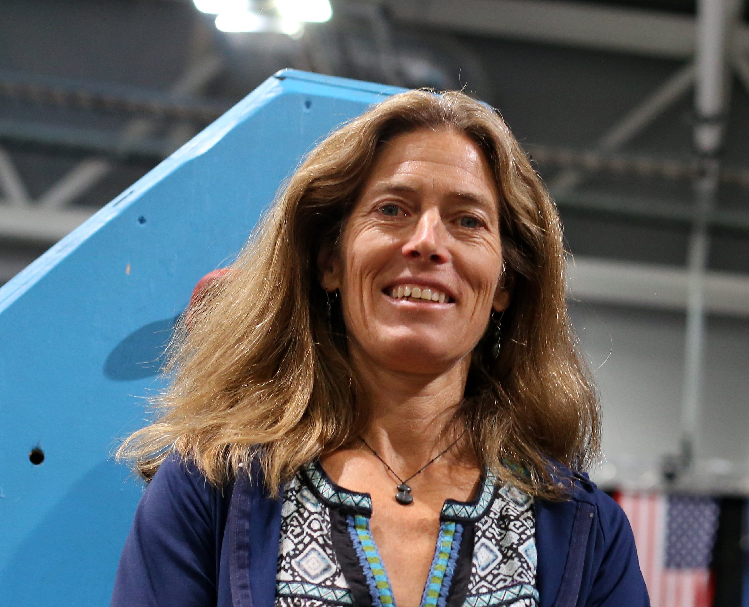 Lynn Hill in Stavanger in conjunction with World cup in climbing in Stavanger 2015. Events by brv.no